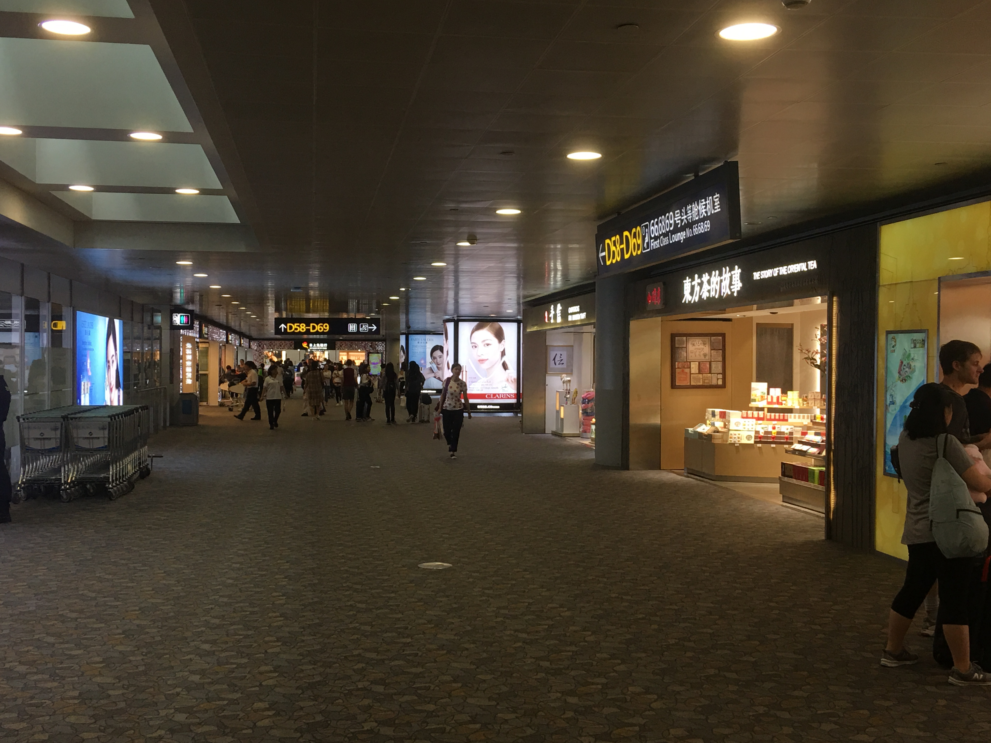 A hallway in Terminal 2